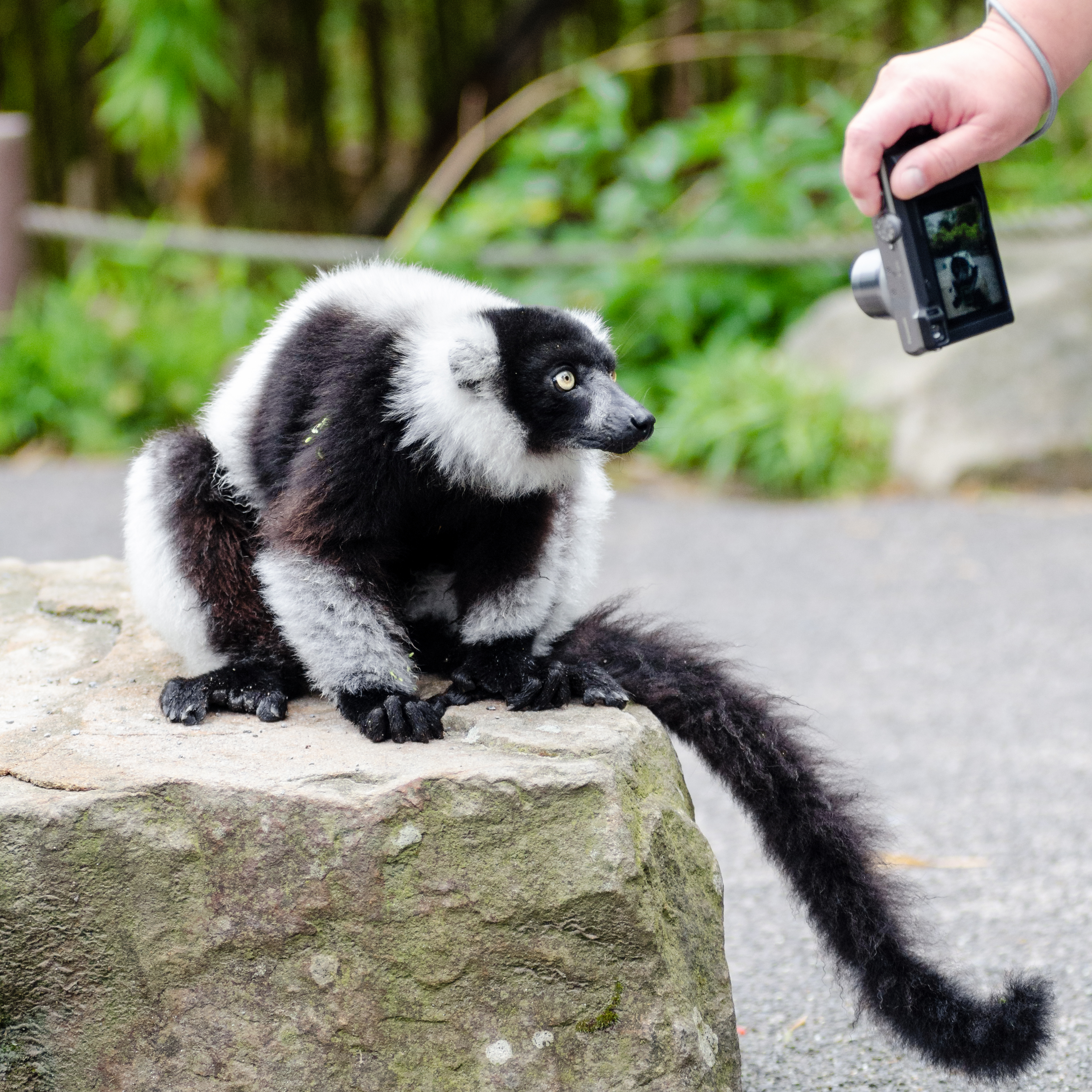 Black-and-white Ruffed Lemur